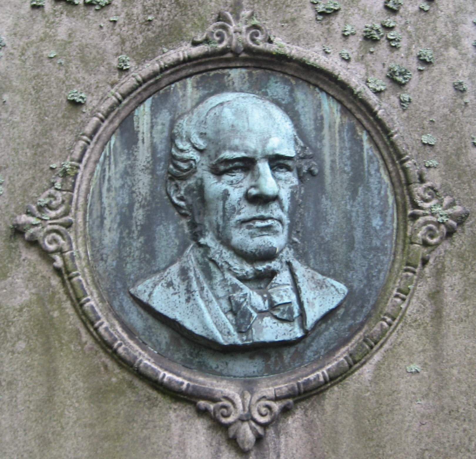 Portrait of professor Christian Wilhelm Blomstrand (1826-1897). Detail from Blomstrand's gravestone at Östra kyrkogården in Lund. Photo taken 081011 by the uploader.